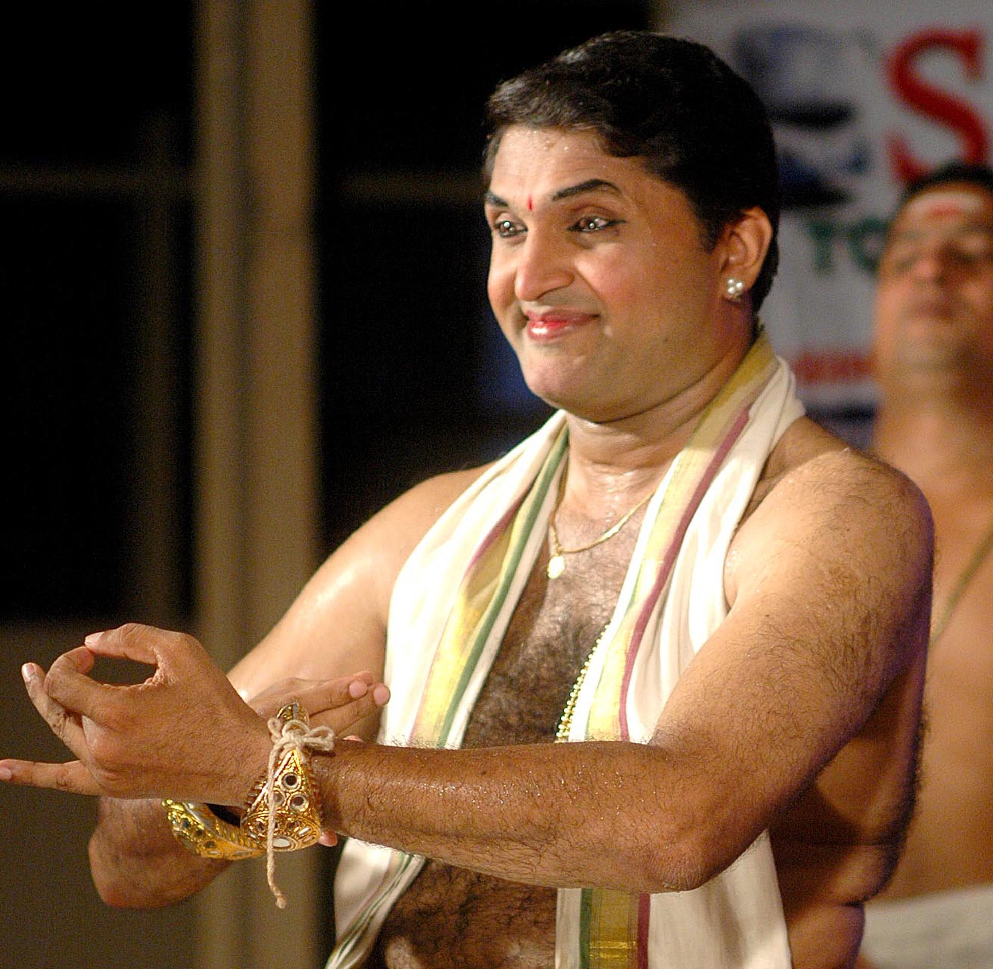 Ettumanoor kannan performing cholliyaattam